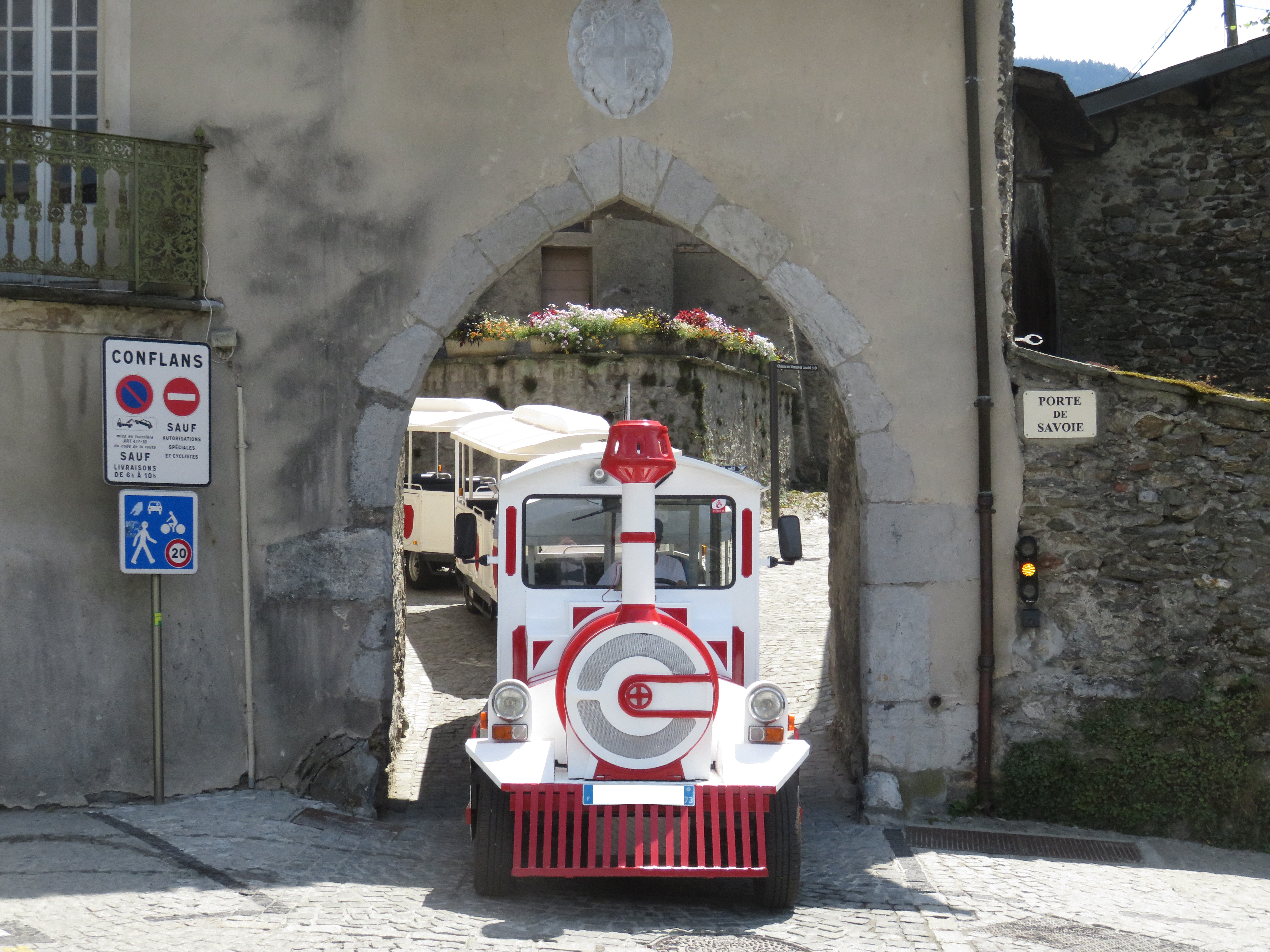 The touristic train parked running behind the Porte de Savoie (Conflans, France) on July 17, 2018.